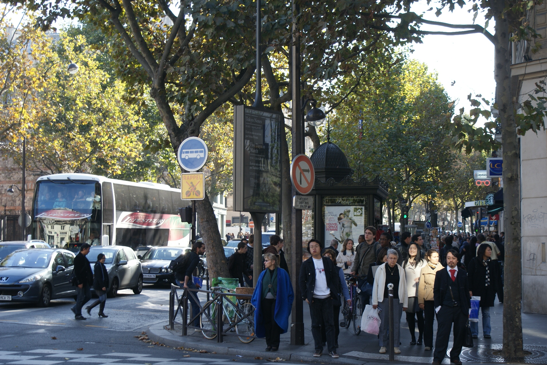 Crowd in Boulevard Saint Michel